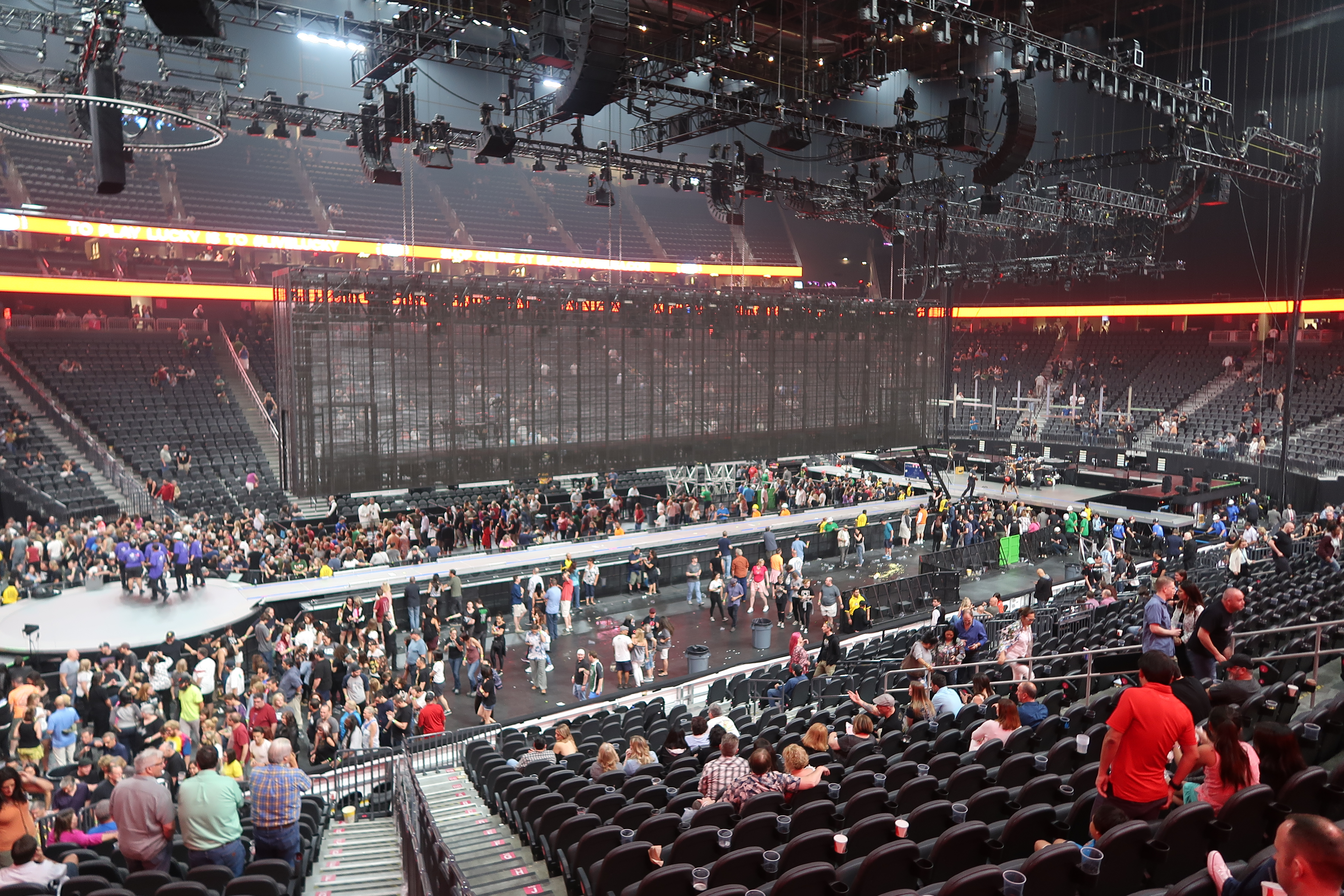 The stage for U2's Experience + Innocence Tour after a concert at T-Mobile Arena in Paradise, Nevada on May 12, 2018